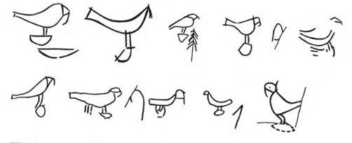 Attestations of Iry-Hor